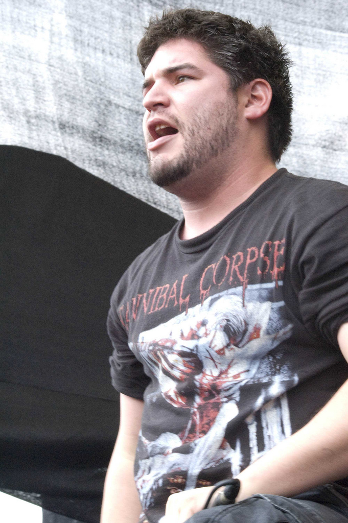 Hernan "Eddie" Hermida from All Shall Perish live at a concert in 2008.